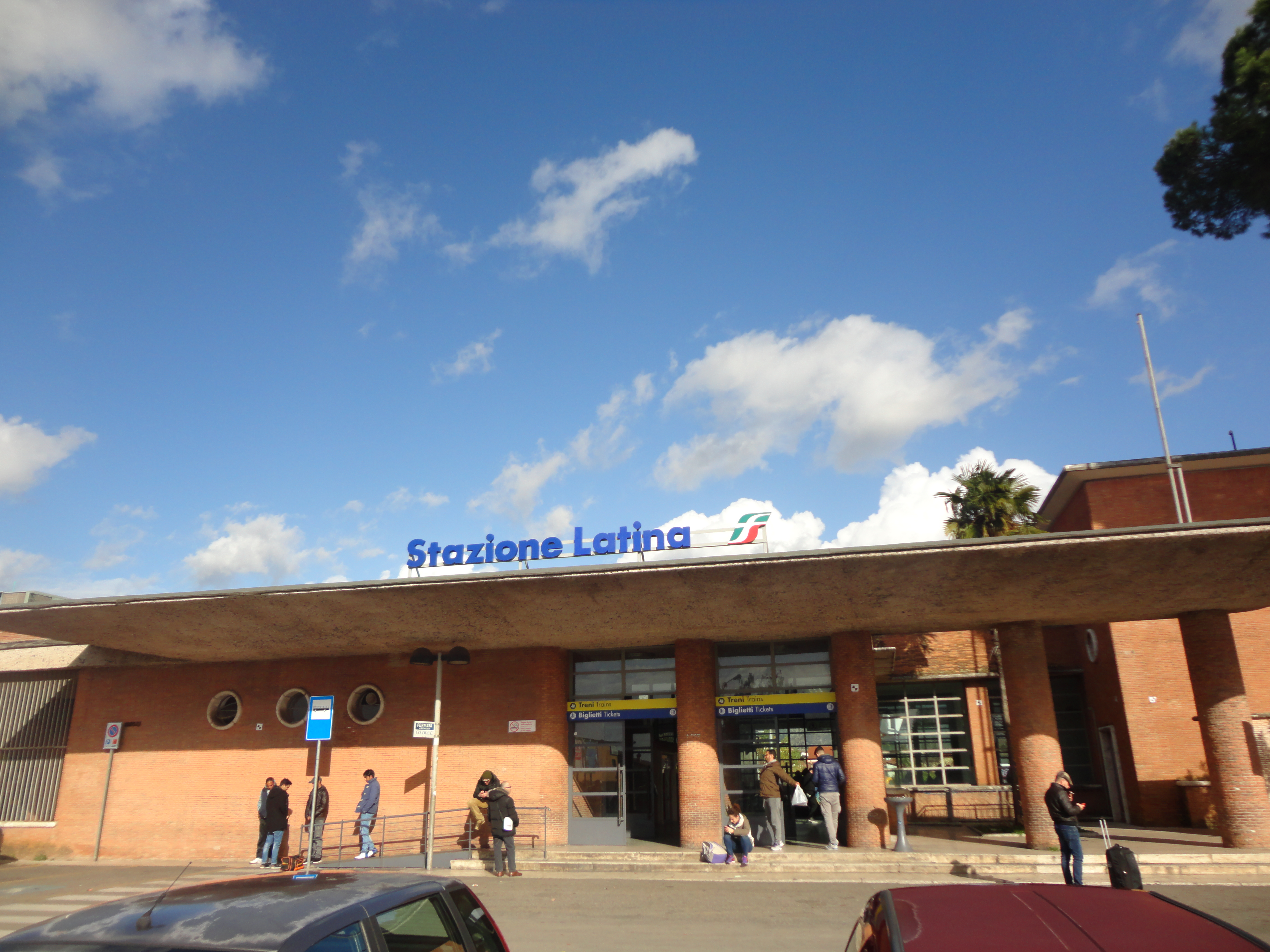 Latina railway station